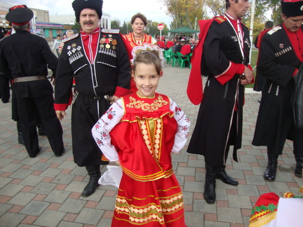 Cossack etnographic festival in Poltavskaya, Krasnodar Krai (15-10-2011)